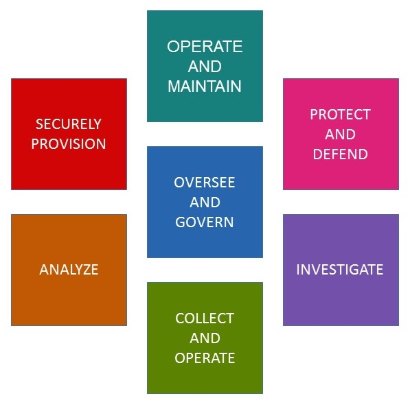 NICE Cybersecurity Workforce Framework seven categories in color boxes.